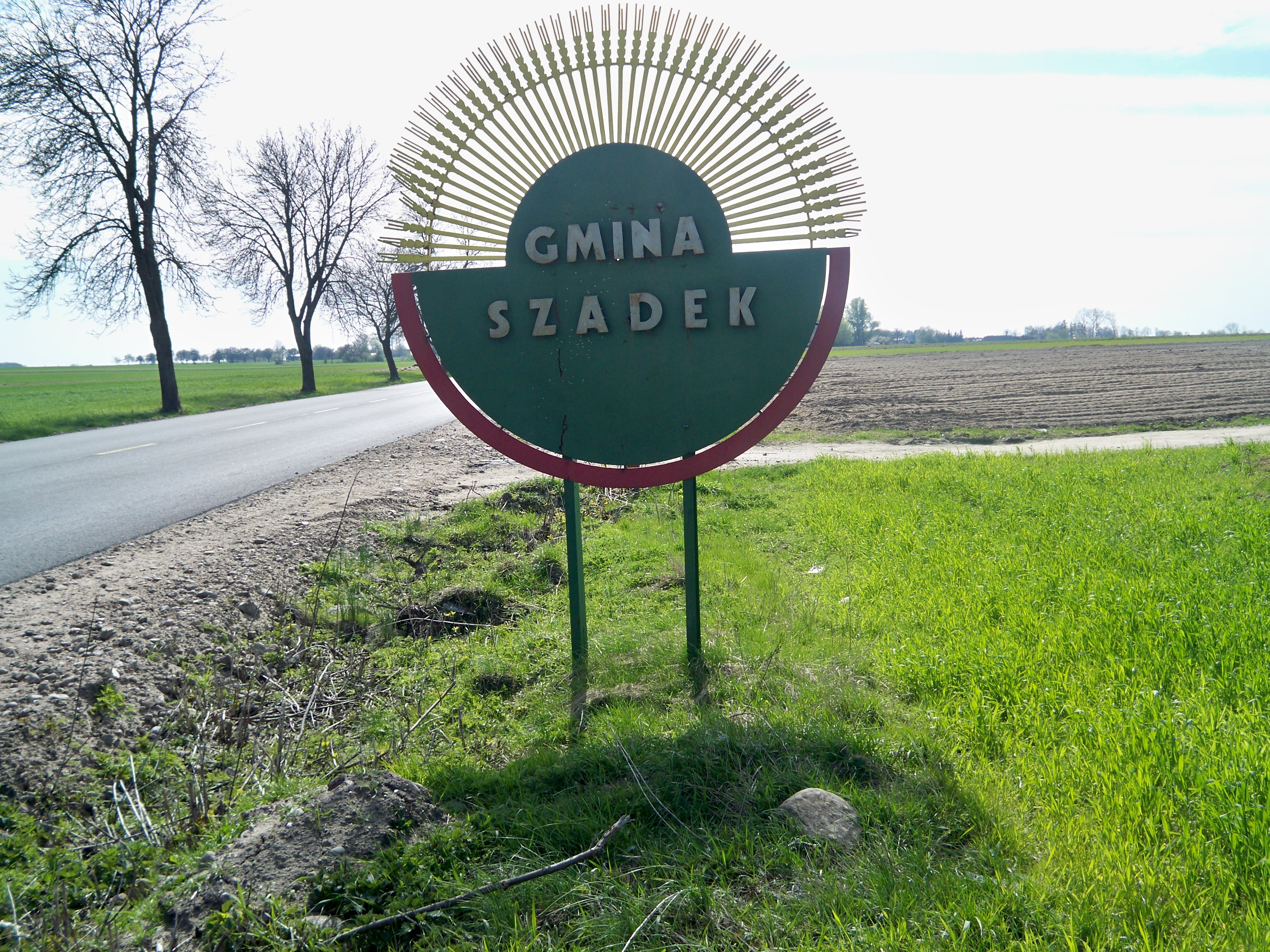 My photo